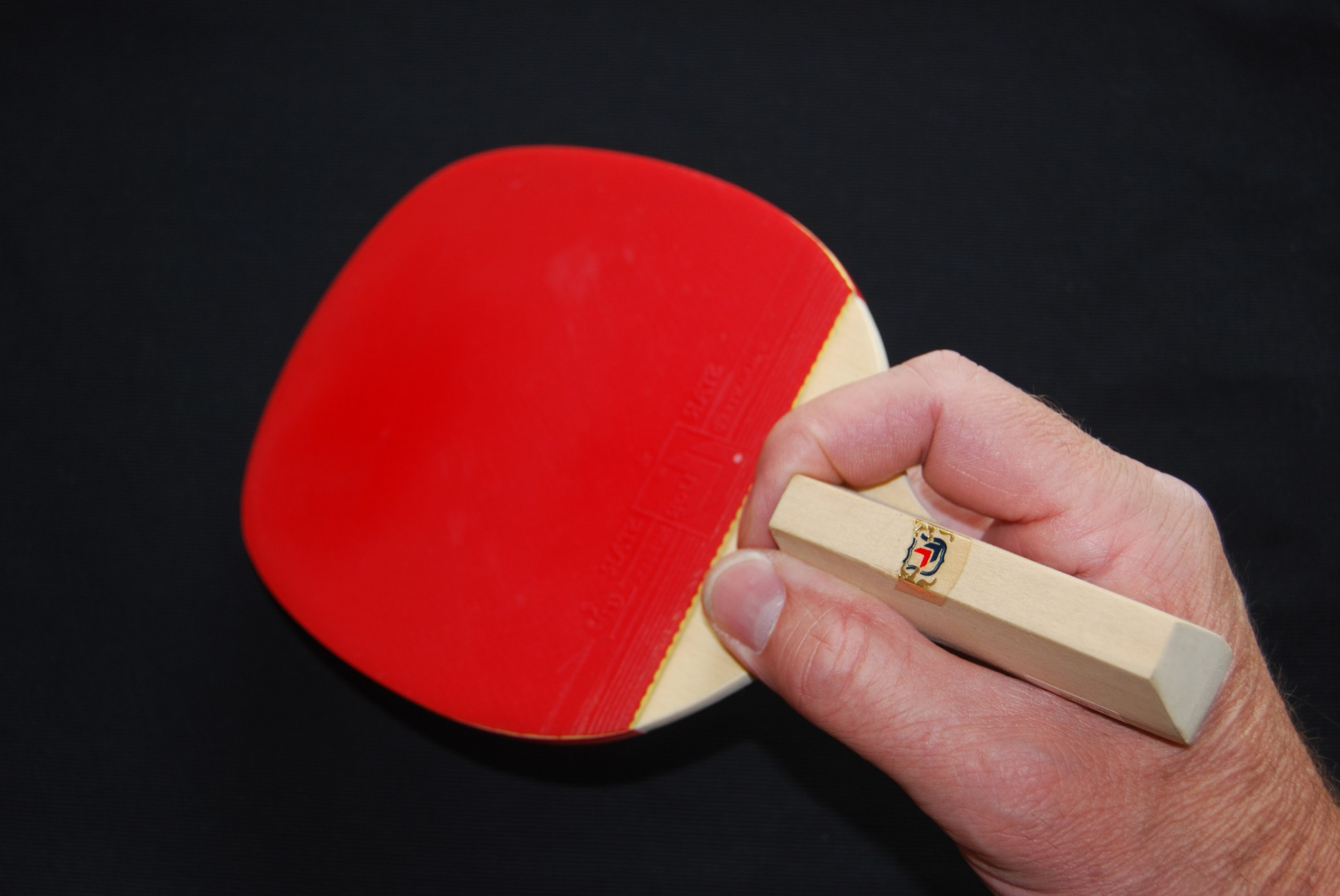 Table Tennis - holding the bat in japanese-penholder-style